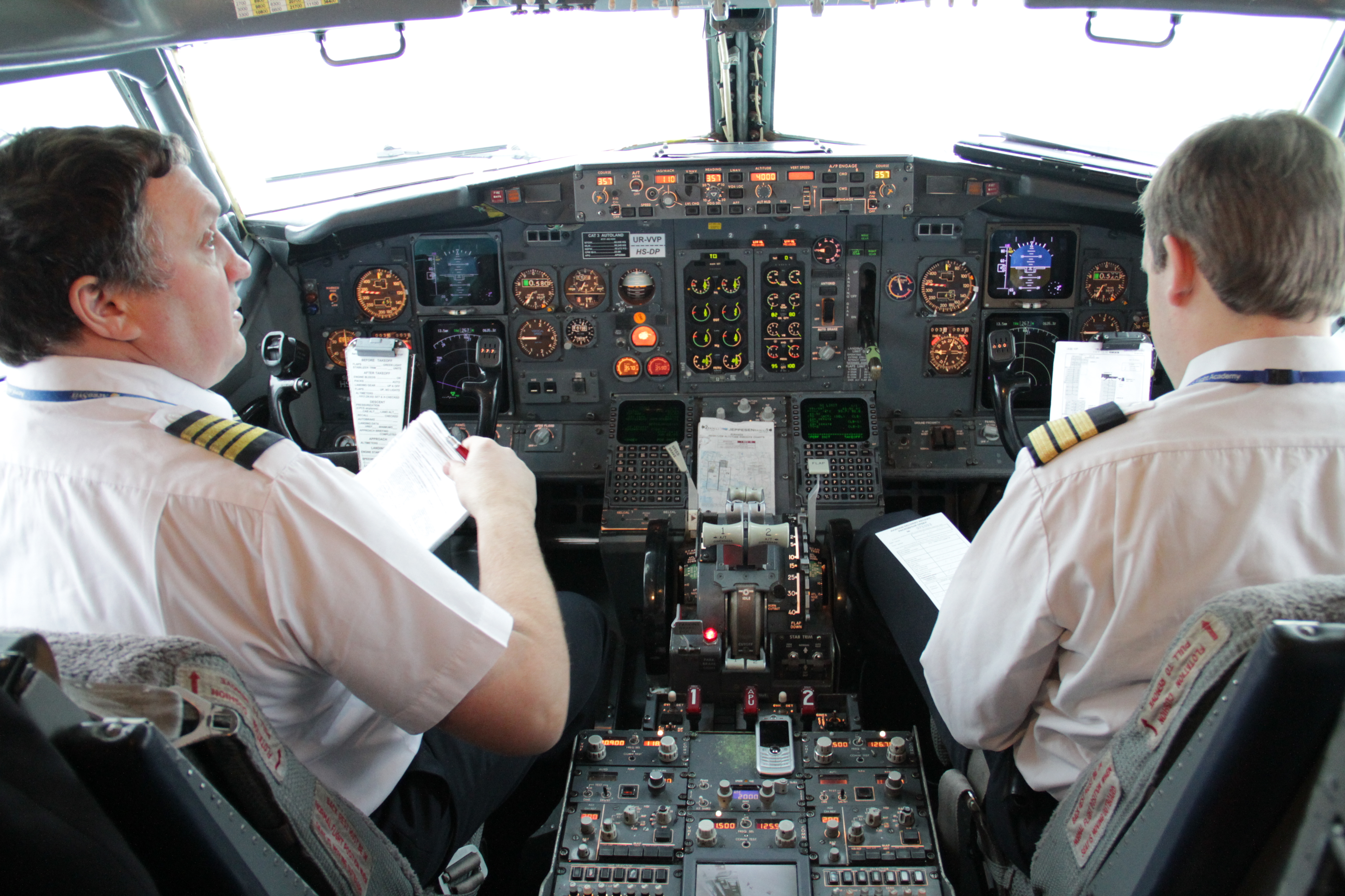 Aerosvit Boeing-737-400 UR-VVP pilot cabin